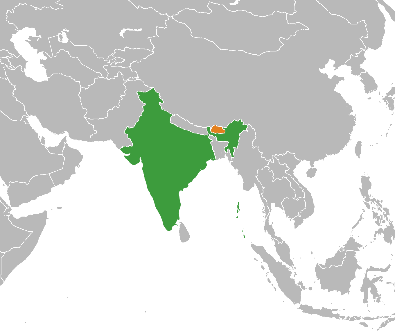 Locator map of India and Bhutan